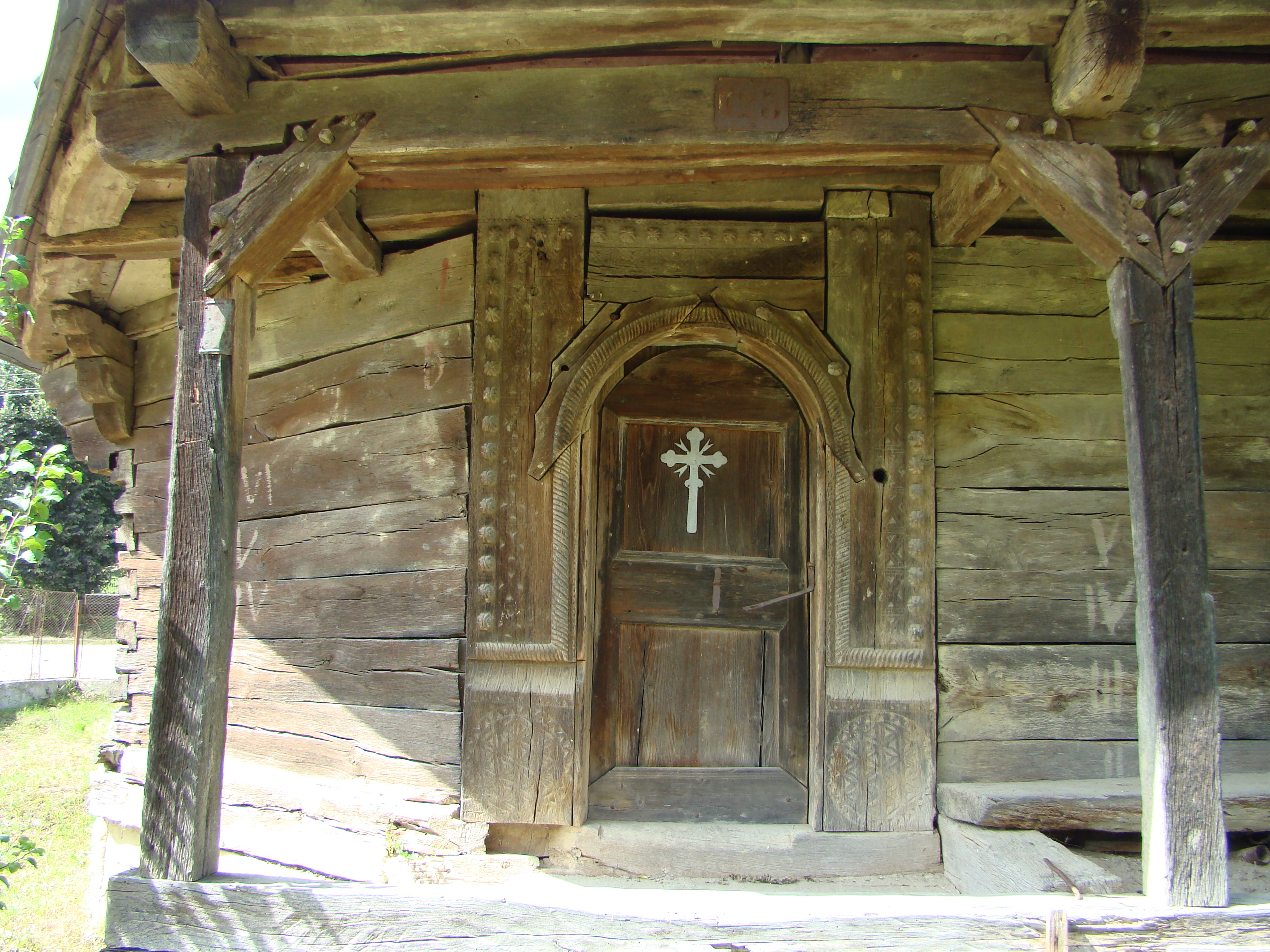 Wooden church in Strugureni, Bistrița-Năsăud county